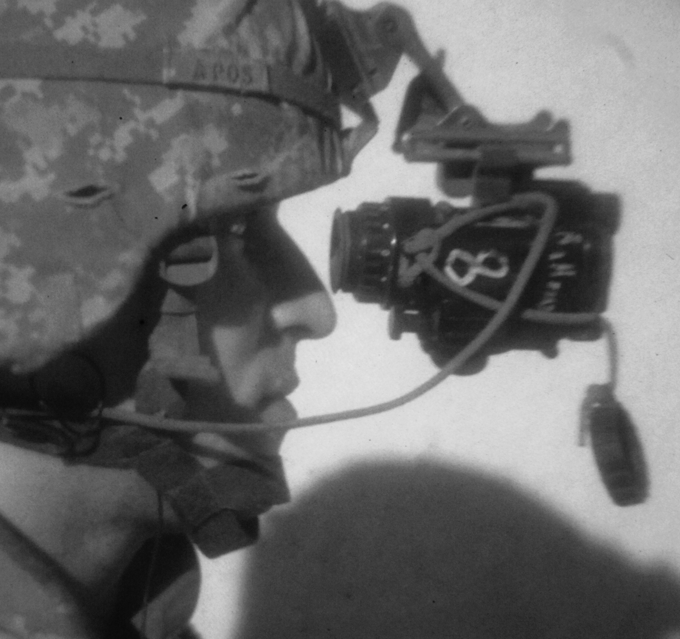 Most people sleep at night. But for soldiers in harm's way, darkness is no reason to remain idle. Here, a soldier from 1st squadron, 2nd stryker cavalry regiment, conducts a night raid October 18, 2007 in Baghdad.